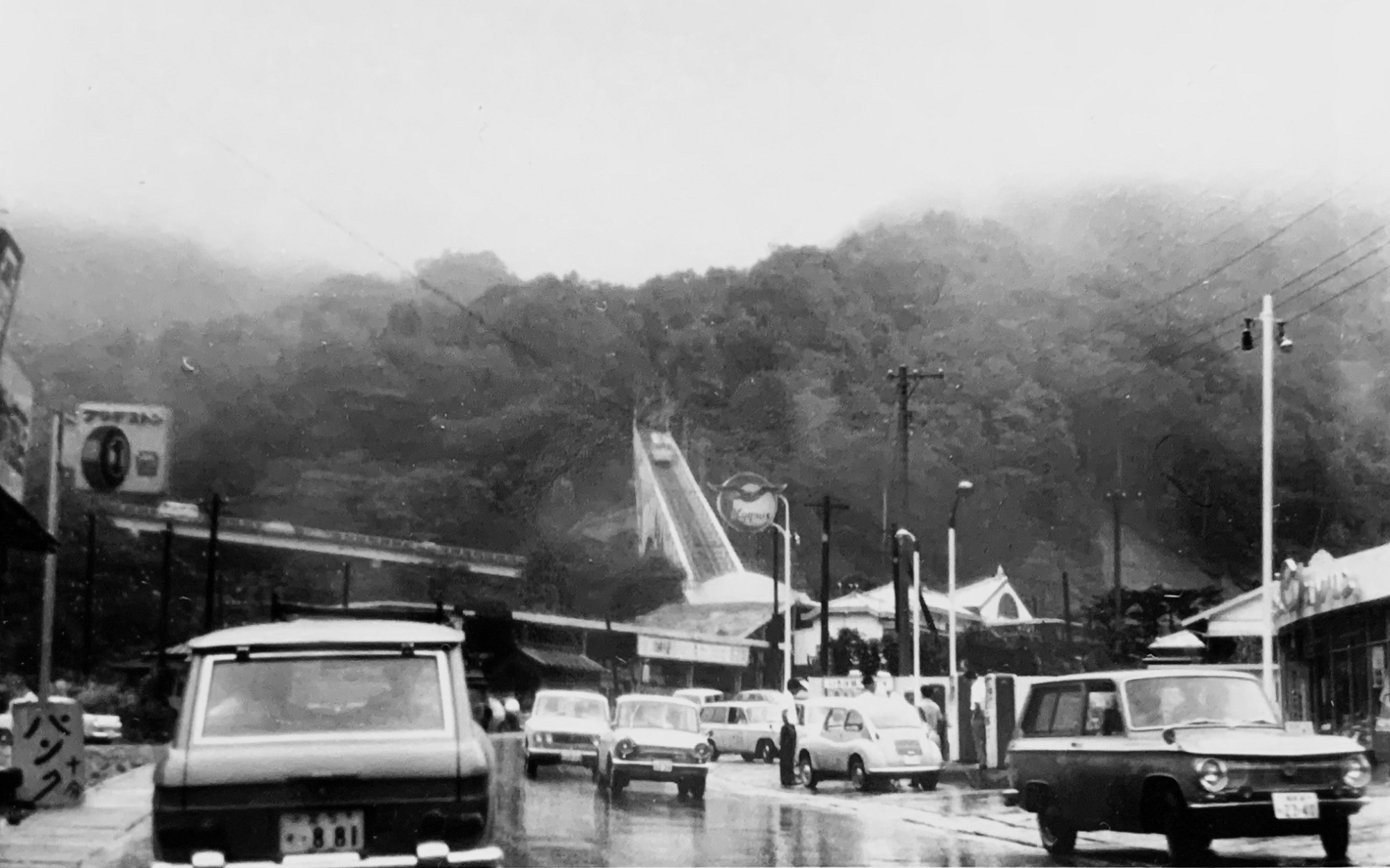 Tobu Nikko Steel Railway Line (1966)